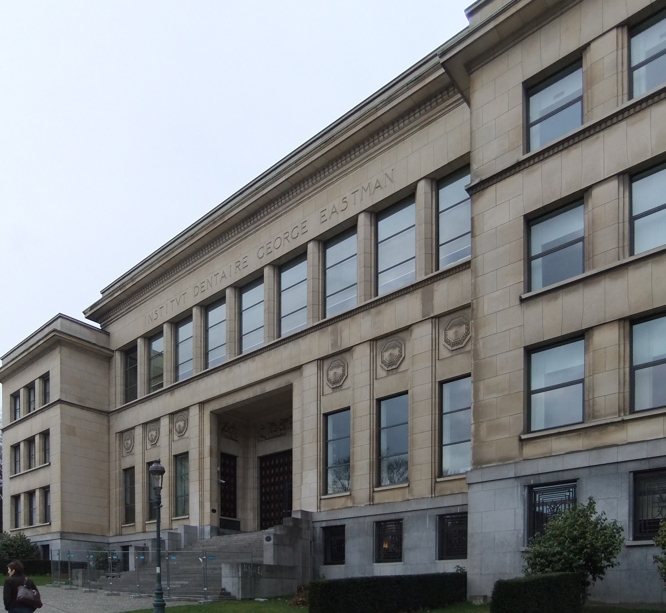 House of European History: European Quarter, Leopold Park Brussels, Belgium.